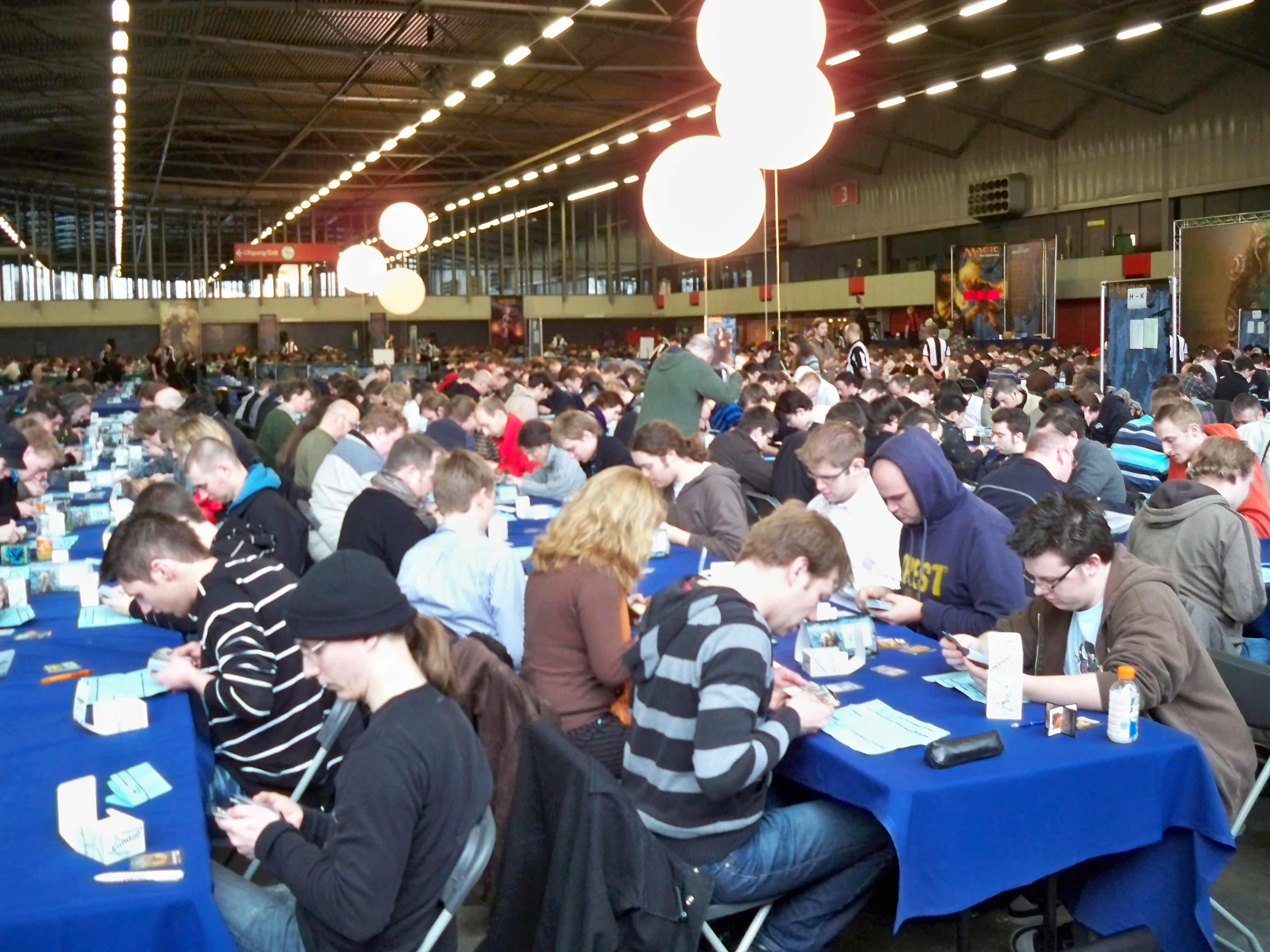 Players at the Magic: The Gathering Grand Prix Rotterdam 2009